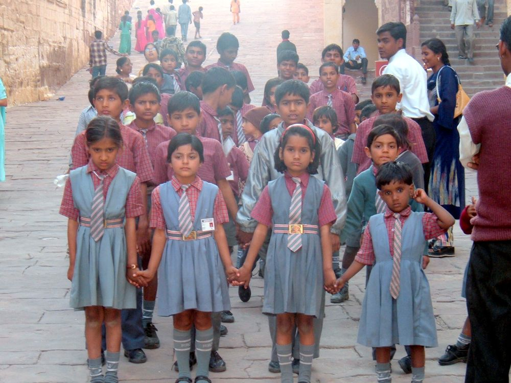 Indian_School-Girls_at_Jodhpur